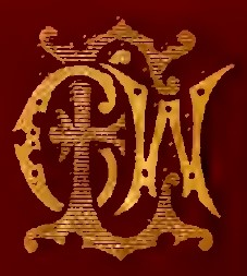 C. Washington Eves monogram from the cover of Jamaica at the Colonial and Indian Exhibition, London, 1886. Spottiswoode, London, 1886.